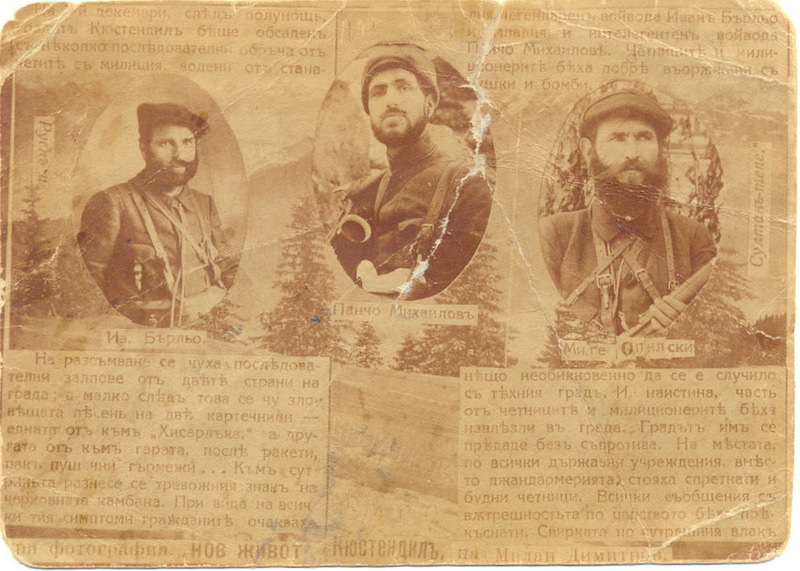 IMRO Voivoida`s Pancho Mihailov, Ivan Burlio and Mite Opilski, who captured the city of Kiustendil in 1923